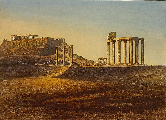 L'Acropolis à Athènes. Print of an engraving based on a daguerreotype photograph taken by Pierre-Gustave Joly (Joly de Lotbinière) in October, 1939. Engraved by Appert. Etching and aquatint, color, with hand-coloring. Illustration in: Excursions daguerriennes, Paris: Noël Paymal Lerebours publisher, 1842, plate 21. The image shows, in the foreground, the columns of the Olympian Zeus and, in the background, the Acropolis. The notes of the photographer (see below) provide more details about the image.Excerpt from the notes of Pierre-Gustave Joly:"October 1839. View of the columns of Olympian Jupiter, taken from the left bank of the Ilyssos, from the stadium. There are 16 columns; above the last two columns of the main group, there is a small rough structure into which had lived an ascetic or holy man, so the people call those columns the fool's columns ; at their foot is seen the Arch of Hadrian on which is written on the side: here is the city of Hadrian. That arch is much taller than it looks here, the level of the base being below that of the columns of Jupiter. In the backgroud the Acropolis and the temple of Minerva or Parthenon."